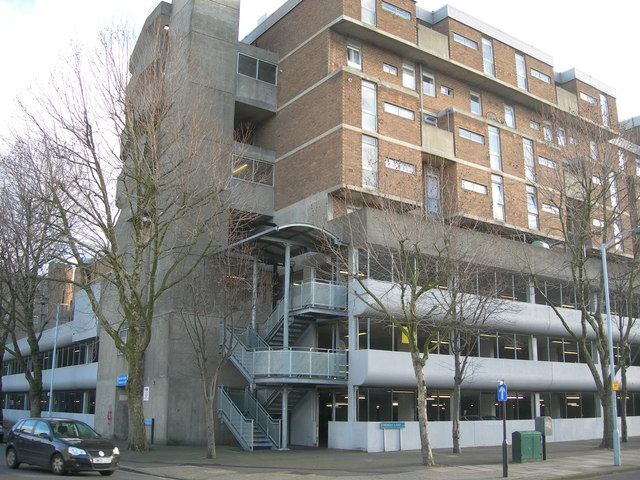 Milford Tower, Catford These flats are built above a car park and shops. Picture taken at the corner of Holbeach Road and Thomas Lane.